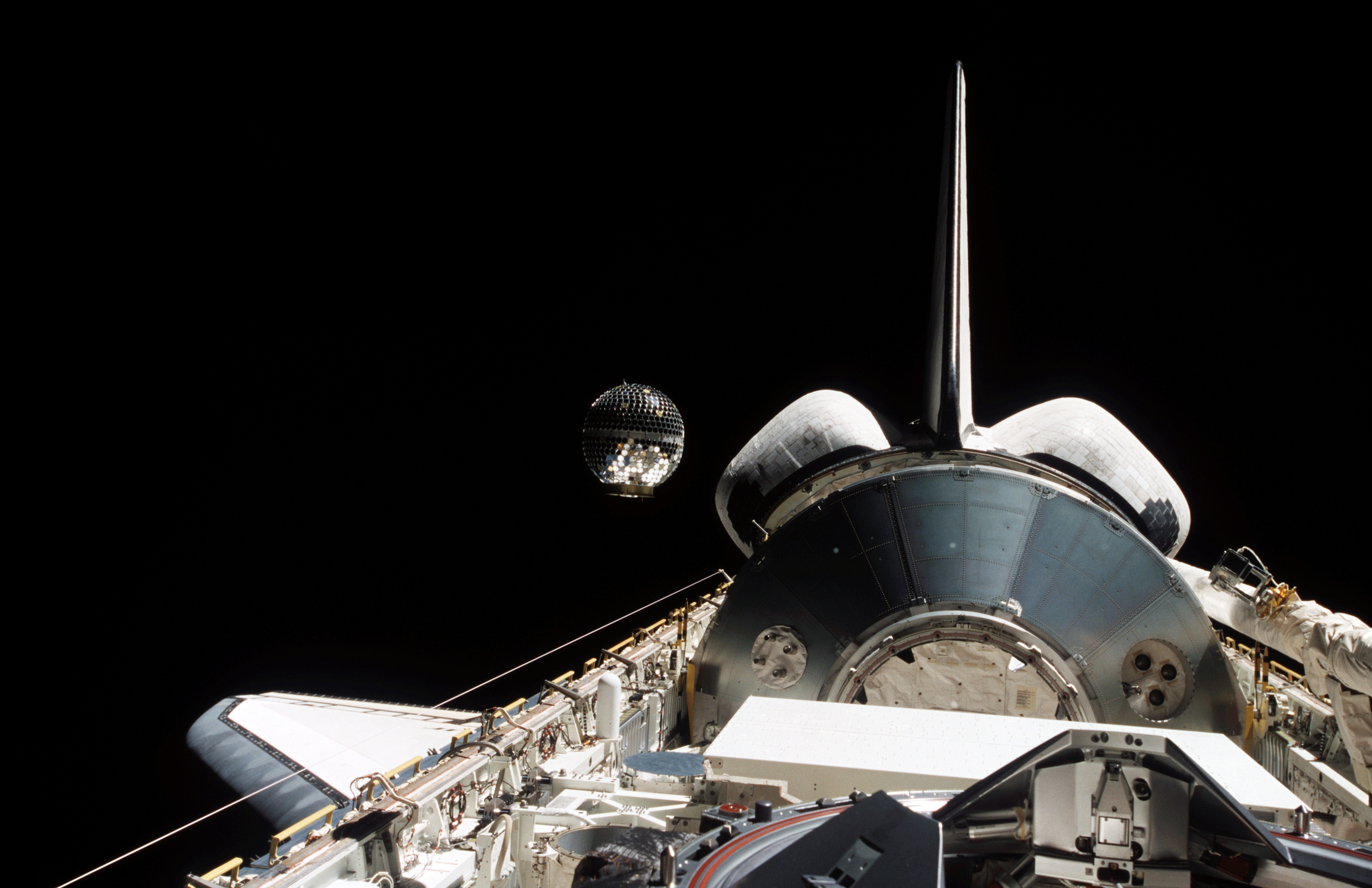 A small satellite called STARSHINE 2 is deployed from a canister in the payload bay of the Space Shuttle Endeavour at 9 a.m. (CST) on Sunday, December 16, 2001. More than 30,000 students from 660 schools in 26 countries will track STARSHINE 2 as it orbits Earth for eight months. The students, who helped polish the satellite's 845 mirrors, will use the information they collect to calculate the density of Earth's upper atmosphere.